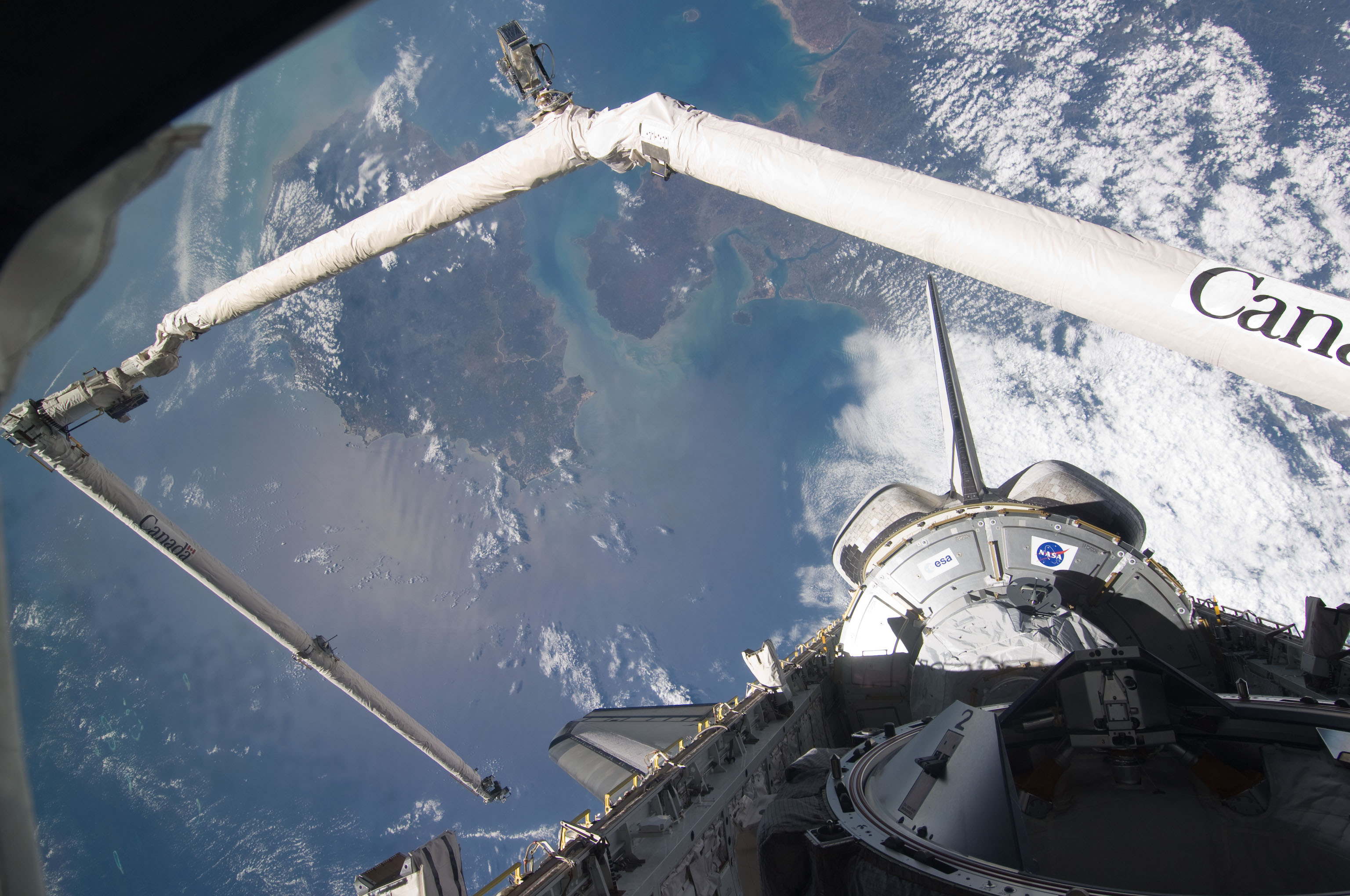 Backdropped by the South China Sea and the Gulf of Tonkin, the Tranquility node in space shuttle Endeavour's payload bay, vertical stabilizer, orbital maneuvering system (OMS) pods and a shadow-covered docking mechanism are featured in this image photographed by the STS-130 crew from an aft flight deck window. Hainan Island can be seen between the South China Sea (bottom) and Gulf of Tonkin (top). The Leizhou Peninsula of the Chinese mainland is on the upper right.